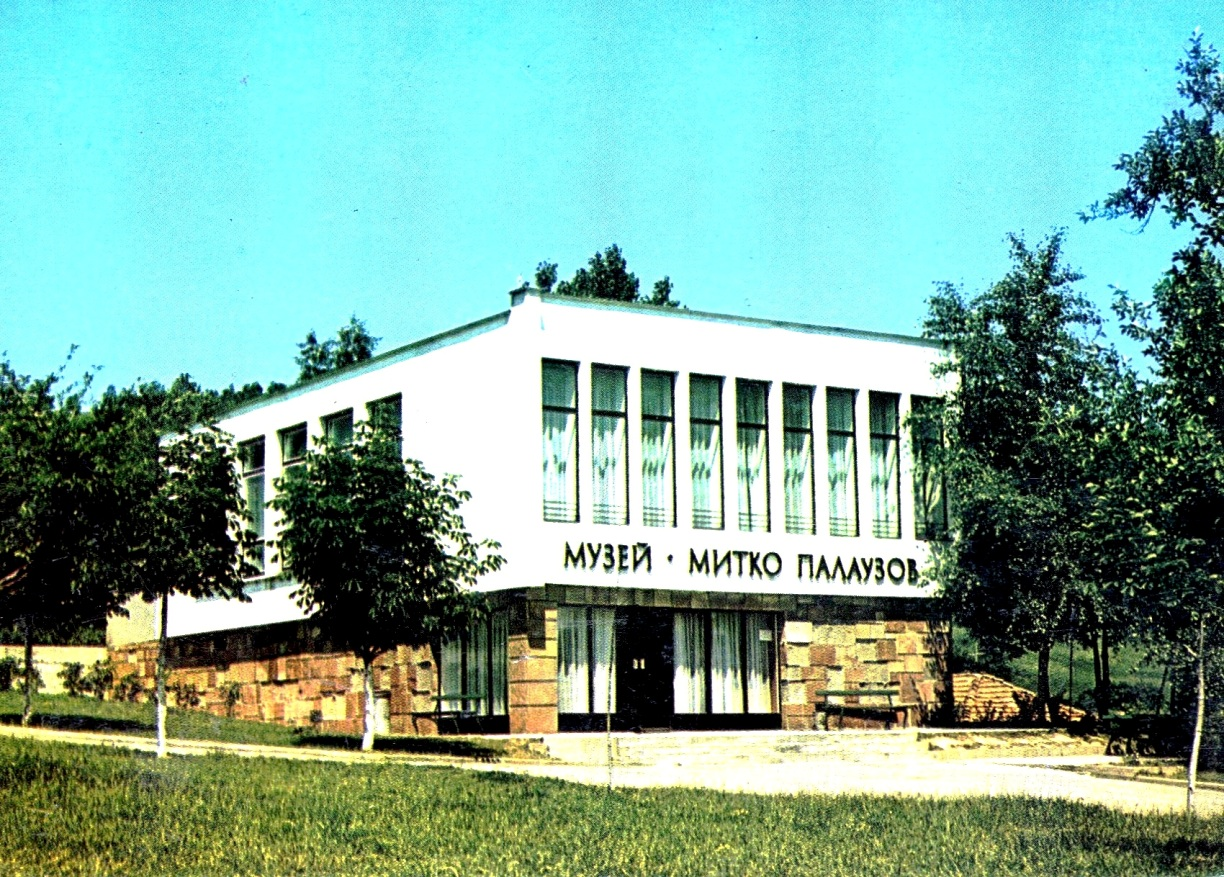 no